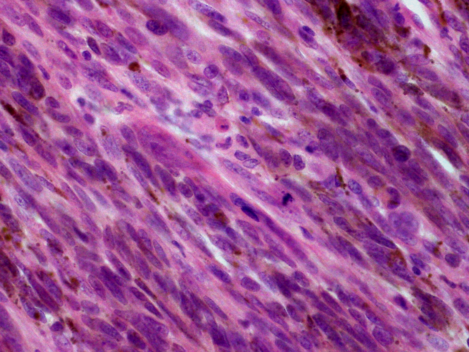 Malignant blue naevus